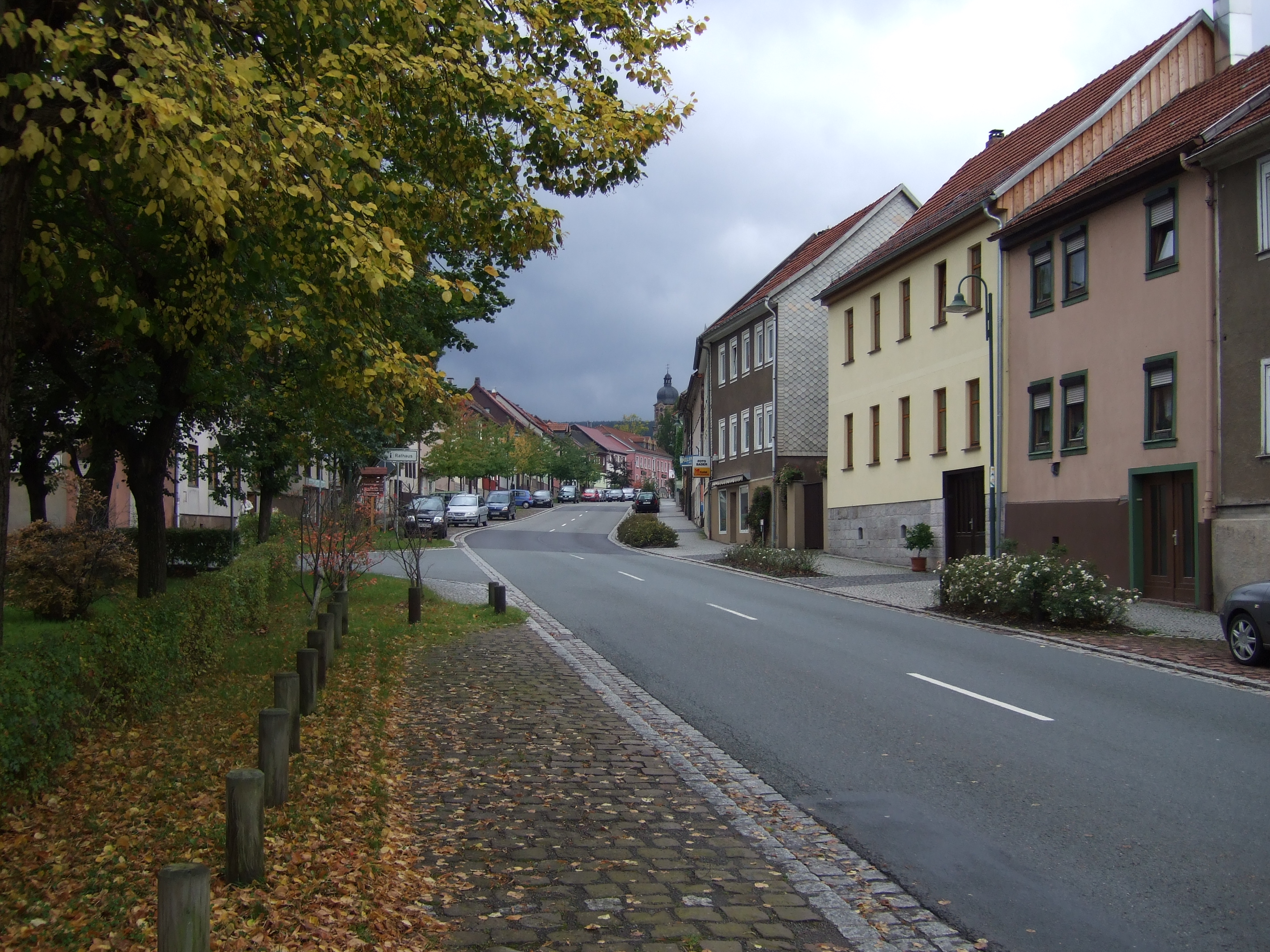 Tambach-Dietharz, Germany 2007. View along Hauptstrasse to church Lutherkirche.